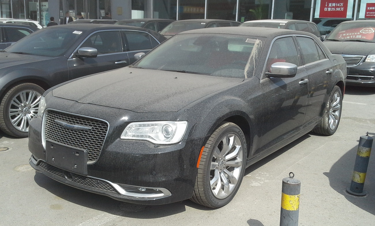 Chrysler 300C II facelift photographed in Beijing, China.